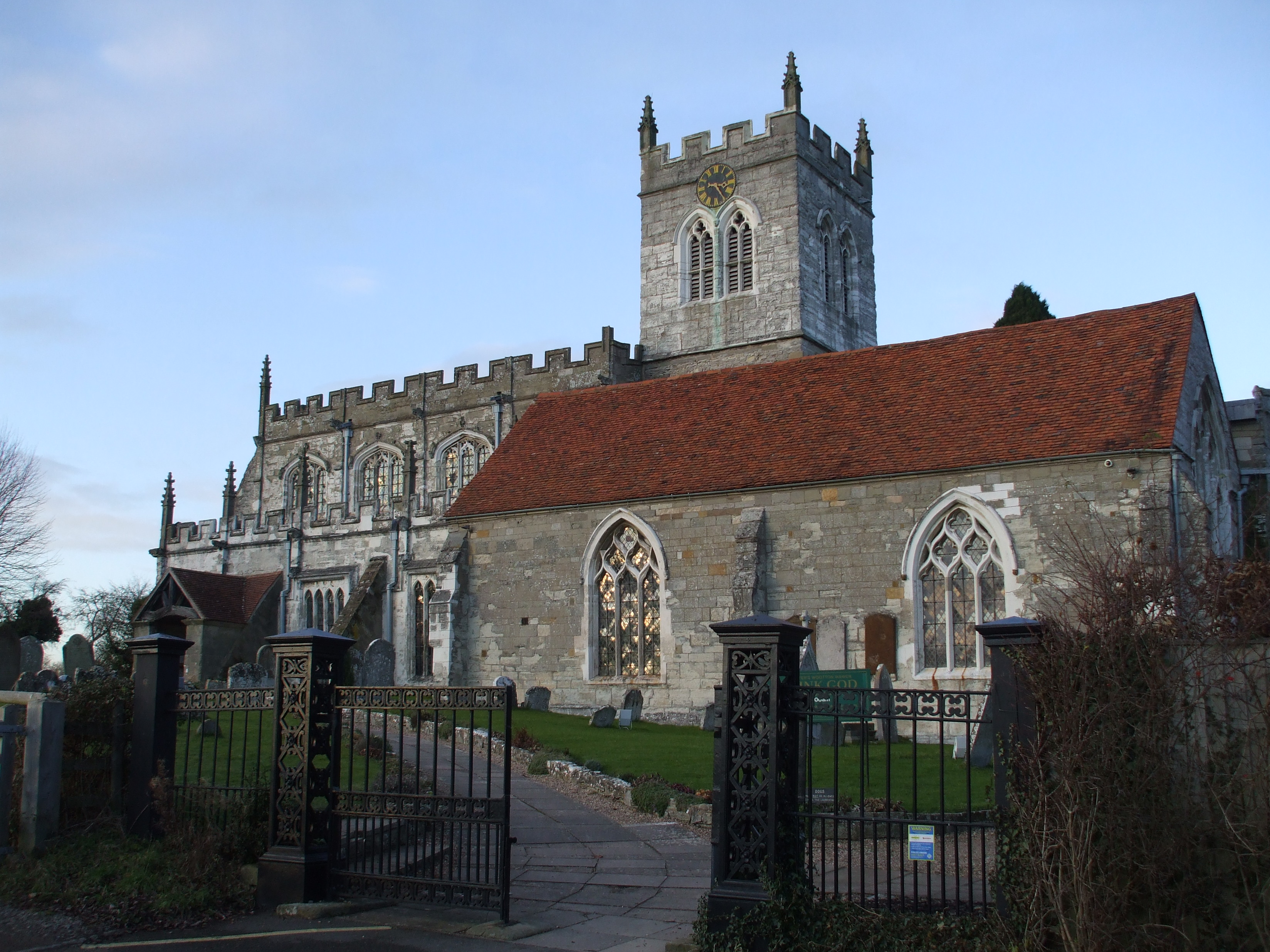 St Peters Church Wootton Wawen Warwickshire